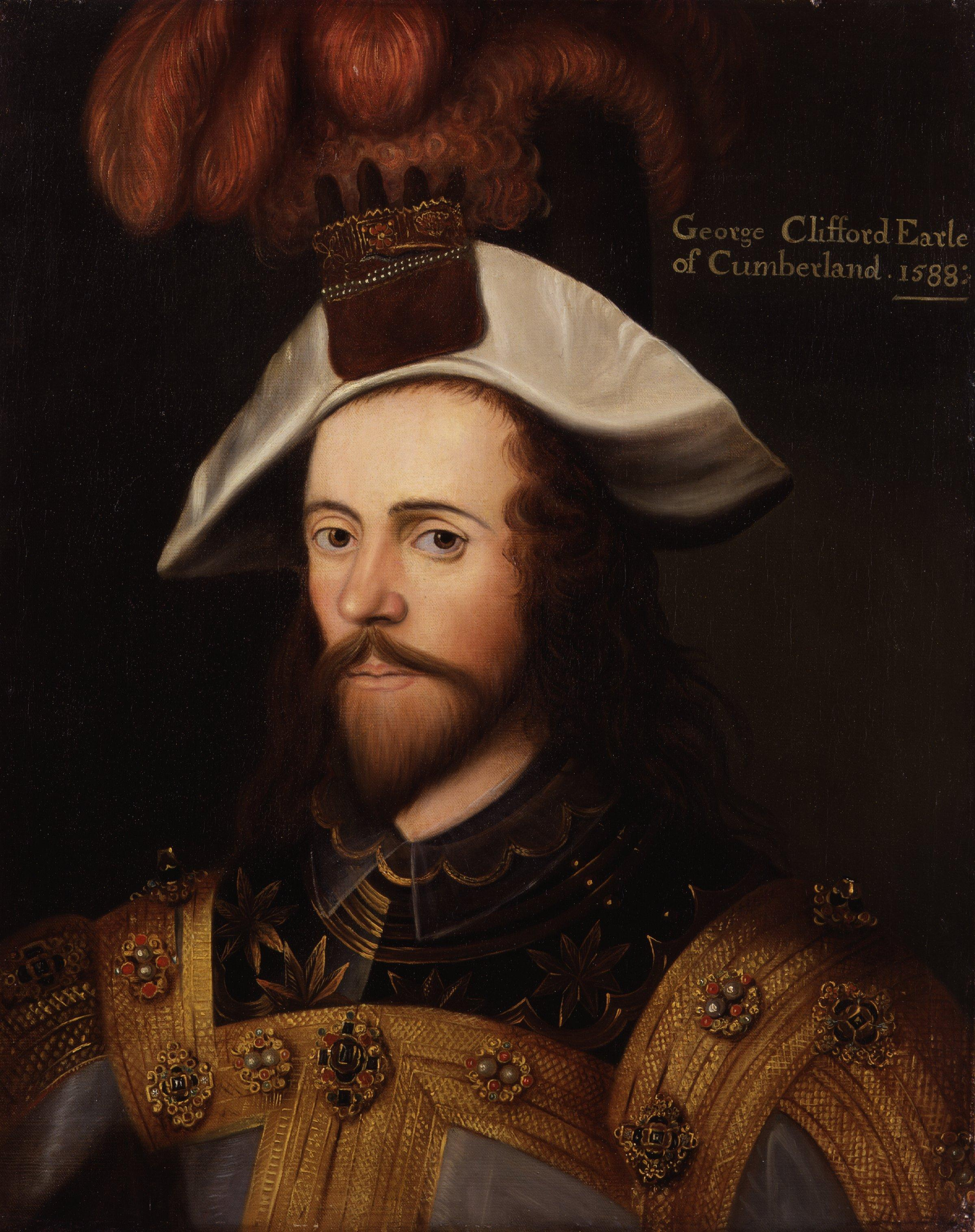 George Clifford, 3rd Earl of Cumberland after Nicholas Hilliard (died 1619). All images in this batch have been confirmed as author died before 1939 according to the official death date listed by the NPG.